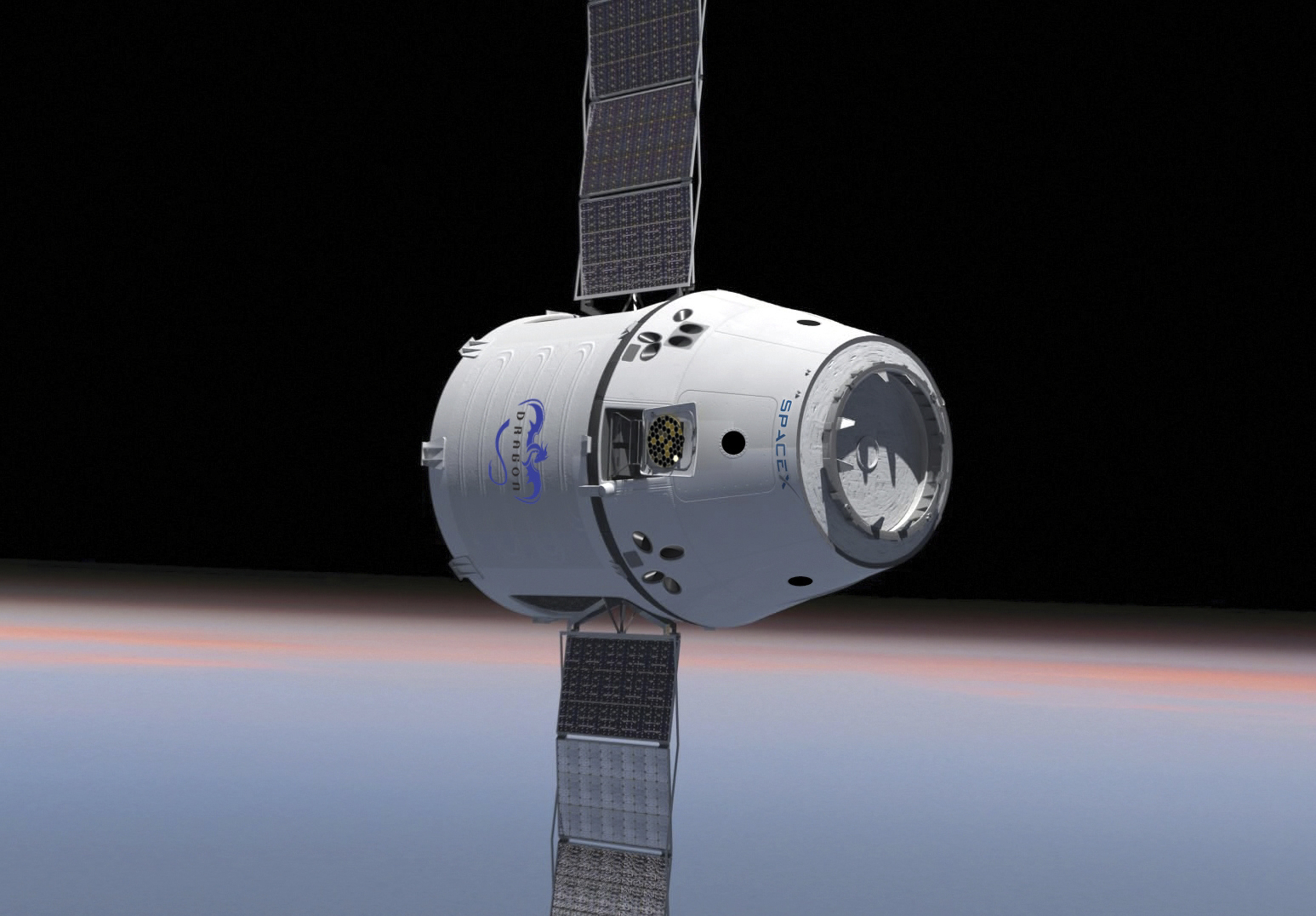 CAPE CANAVERAL, Fla. – This is an artist's conception of the Dragon capsule under development by Space Exploration Technologies (SpaceX) of Hawthorne, Calif., for NASA's Commercial Crew Program (CCP). In 2011, NASA selected SpaceX during Commercial Crew Development Round 2 (CCDev2) activities to mature the design and development of a crew transportation system with the overall goal of accelerating a United States-led capability to the International Space Station. The goal of CCP is to drive down the cost of space travel as well as open up space to more people than ever before by balancing industry’s own innovative capabilities with NASA's 50 years of human spaceflight experience. Six other aerospace companies also are maturing launch vehicle and spacecraft designs under CCDev2, including Alliant Techsystems Inc. (ATK), The Boeing Co., Excalibur Almaz Inc., Blue Origin, Sierra Nevada, and United Launch Alliance (ULA). For more information, visit Please note that the Dragon featured in this image is equipped with a Common Berthing Mechanism but it lacks a Power Data Grapple Fixture needed for berthing. This means that this Dragon cannot berth or dock with the ISS so the Dragon depicted here is most likely being used for an unmanned DragonLab mission.